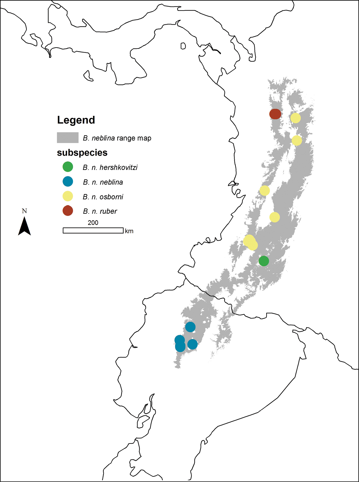 Distributions (localities) of the four Olinguito subspecies in the Andes of Colombia and Ecuador. Helgen K, Pinto C, Kays R, Helgen L, Tsuchiya M, Quinn A, Wilson D & Maldonado J. (2013). "Taxonomic revision of the olingos (Bassaricyon), with description of a new species, the Olinguito". ZooKeys 324: 1--83. Pensoft Publishers. Retrieved on 2013-08-16.